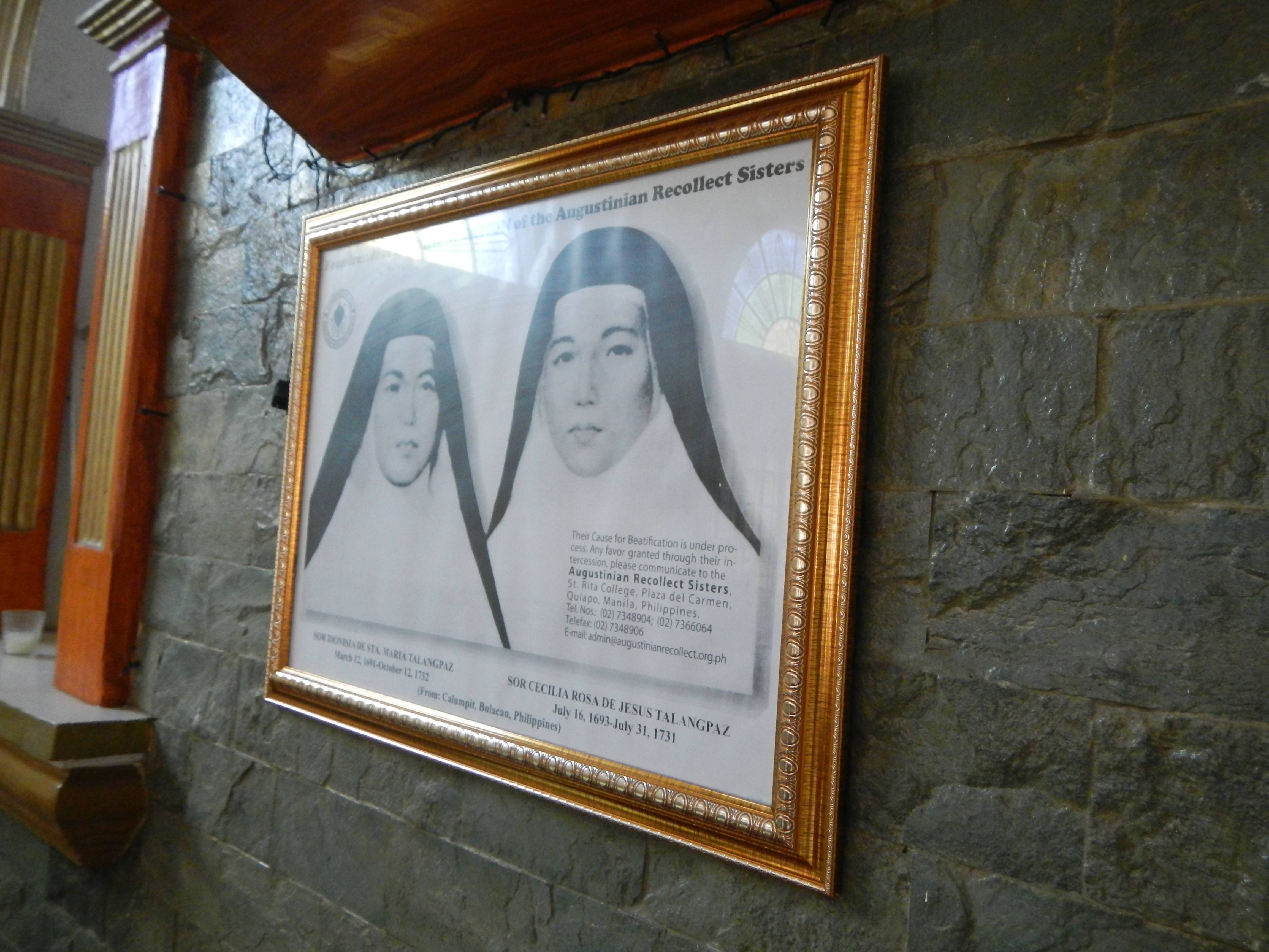 Blessed Photos of Servants of God Dionisia de Santa María Mitas Talangpaz (1691–1732)] and Rosa de Jesús Talangpaz (1693–1731) inside the Barangay Balungao, Calumpit, Bulacan Chapel and also found in the Saint John the Baptist Church; Calumpit, Bulacan - Barangay Balungao, Calumpit, Bulacan is adjoined by neighbor Barangay Calizon, Calumpit, Bulacan (Balungao Chapel and Barangay Hall, scenery, paddy fields, greens) along the interior Old Calumpit-Hagonoy-Malolos Provincial Road or Highway.